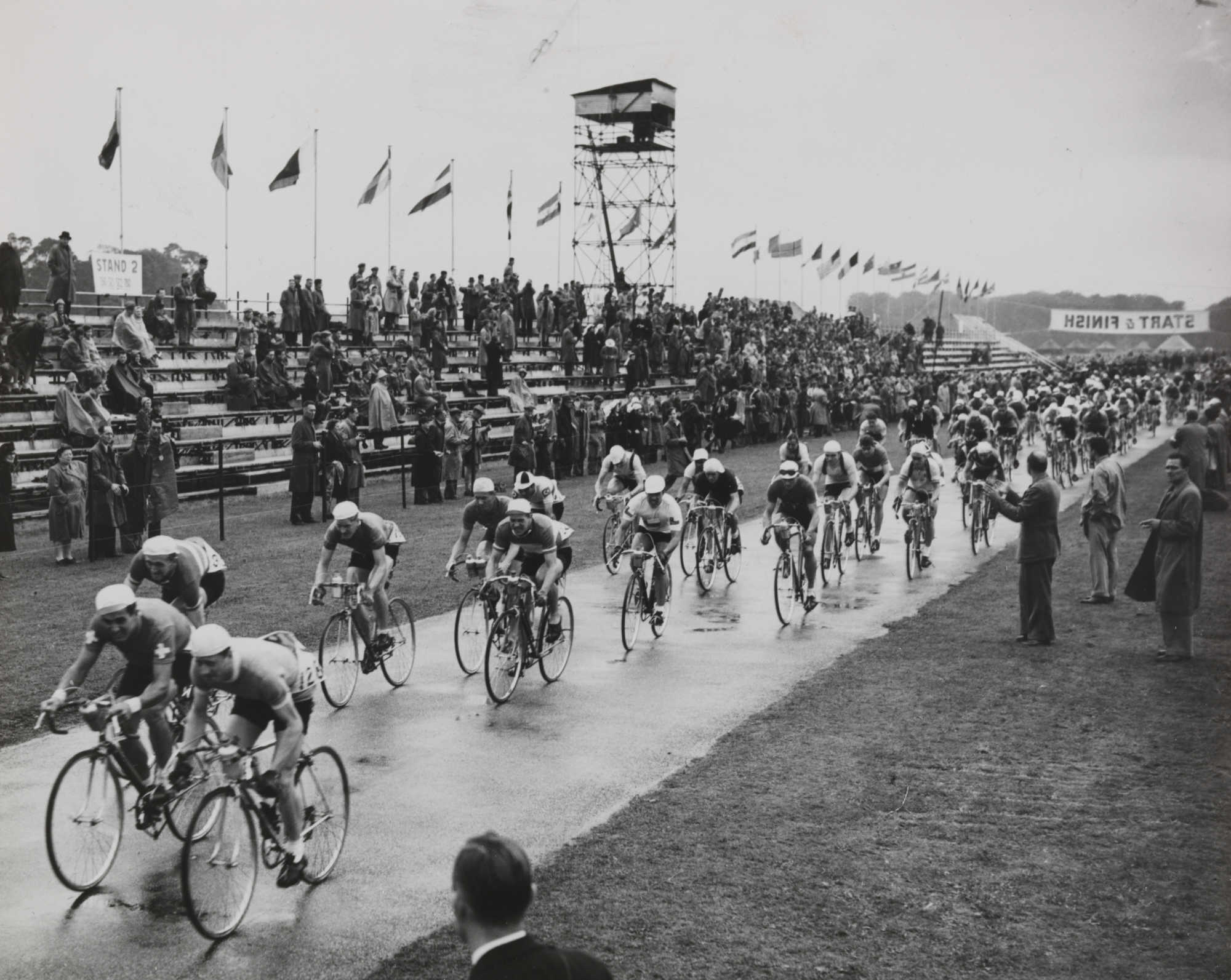 The start of the Olympic cycling road race at Windsor. The race covered a distance of 181 miles and is both an individual event and a team race. Daily Herald Archive at the National Media Museum